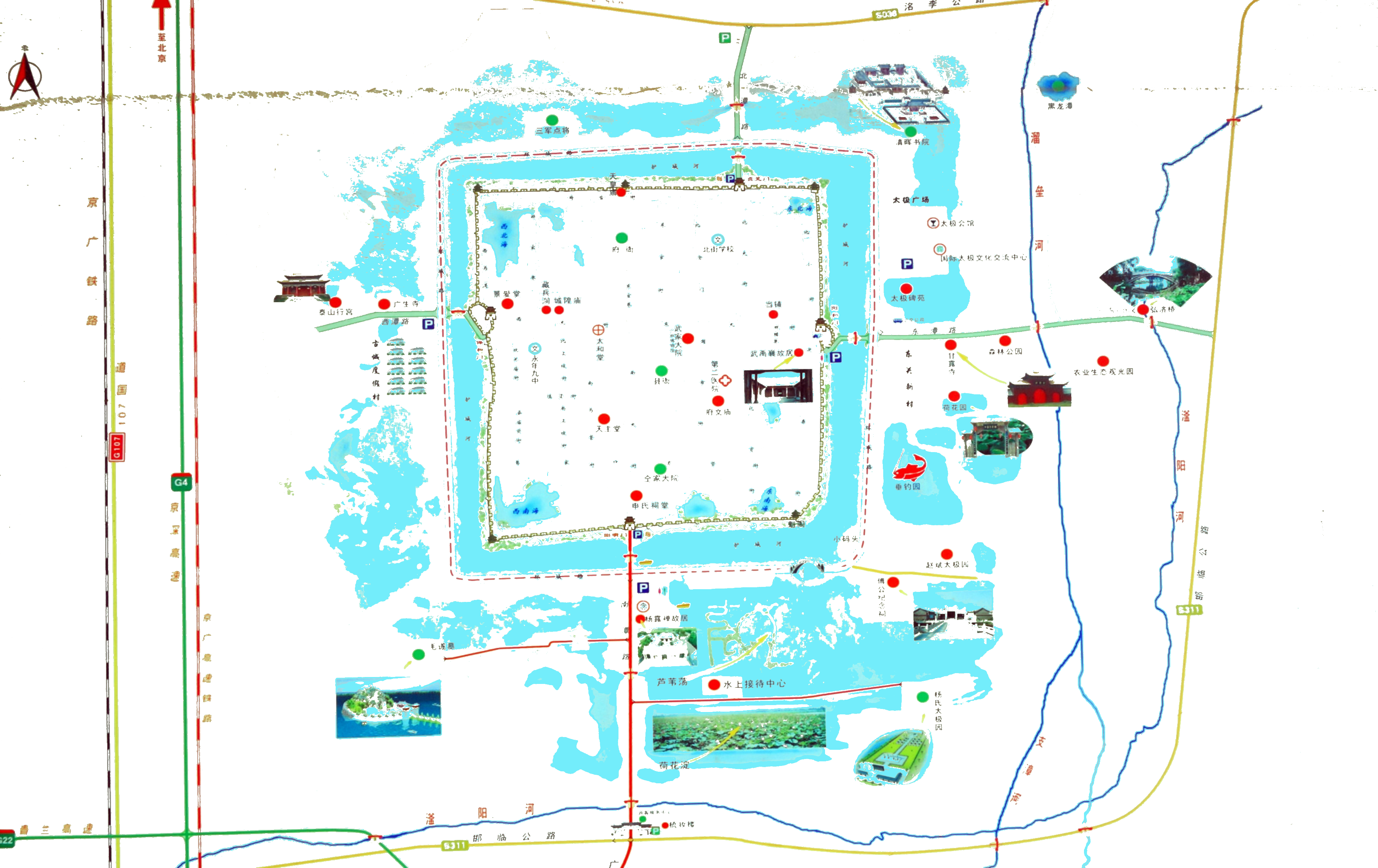 A map of Guangfu Ancient City and its surroundings, in Handan Prefecture, Hebei. Public domain per Article 22 of the 2010 copyright law: "copying, drawing, photographing, or video recording of an artistic work located or on display in an outdoor public place".